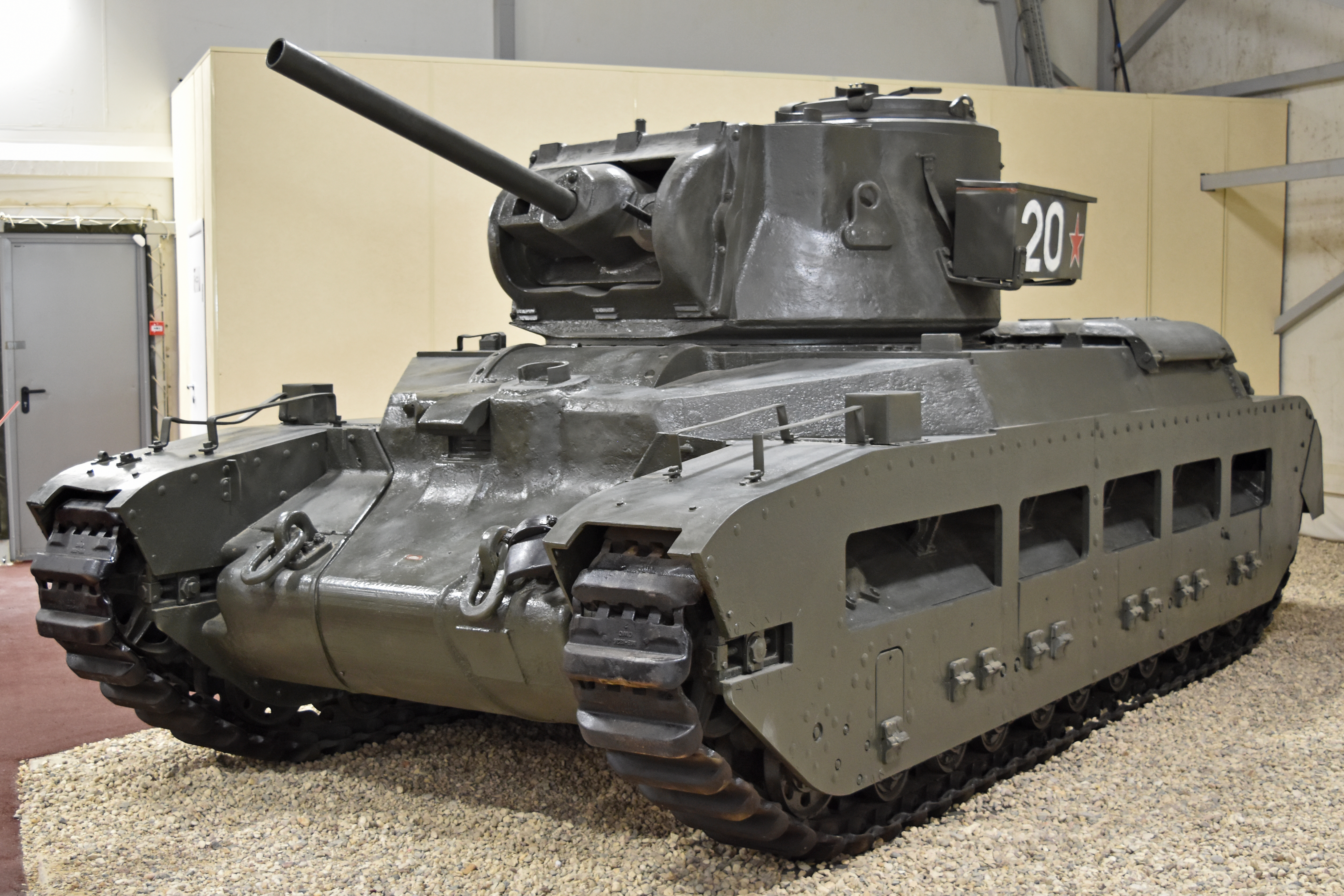 British WW2 era Infantry Tank Official designation:- Infantry Tank Mk.II, A12 Primary Manufacturer:- Vulcan Foundry Built:- 1937 to 1943 Total production:- 2,987 Main Armament (MkIIICS):- QF 3-inch Howitzer This Matilda is probably one that was supplied to the Soviet Union under Lend-Lease arrangements. It is a close-support version fitted with a 76mm Howitzer. The close fitting side panels became easily clogged with snow or mud, which did not help the tanks mobility in the harsh Eastern Front environment. Recently restored in Soviet markings, this example is now on display in Hall 9 of the Patriot Museum Complex. Park Patriot, Kubinka, Moscow Oblast, Russia. 25th August 2017